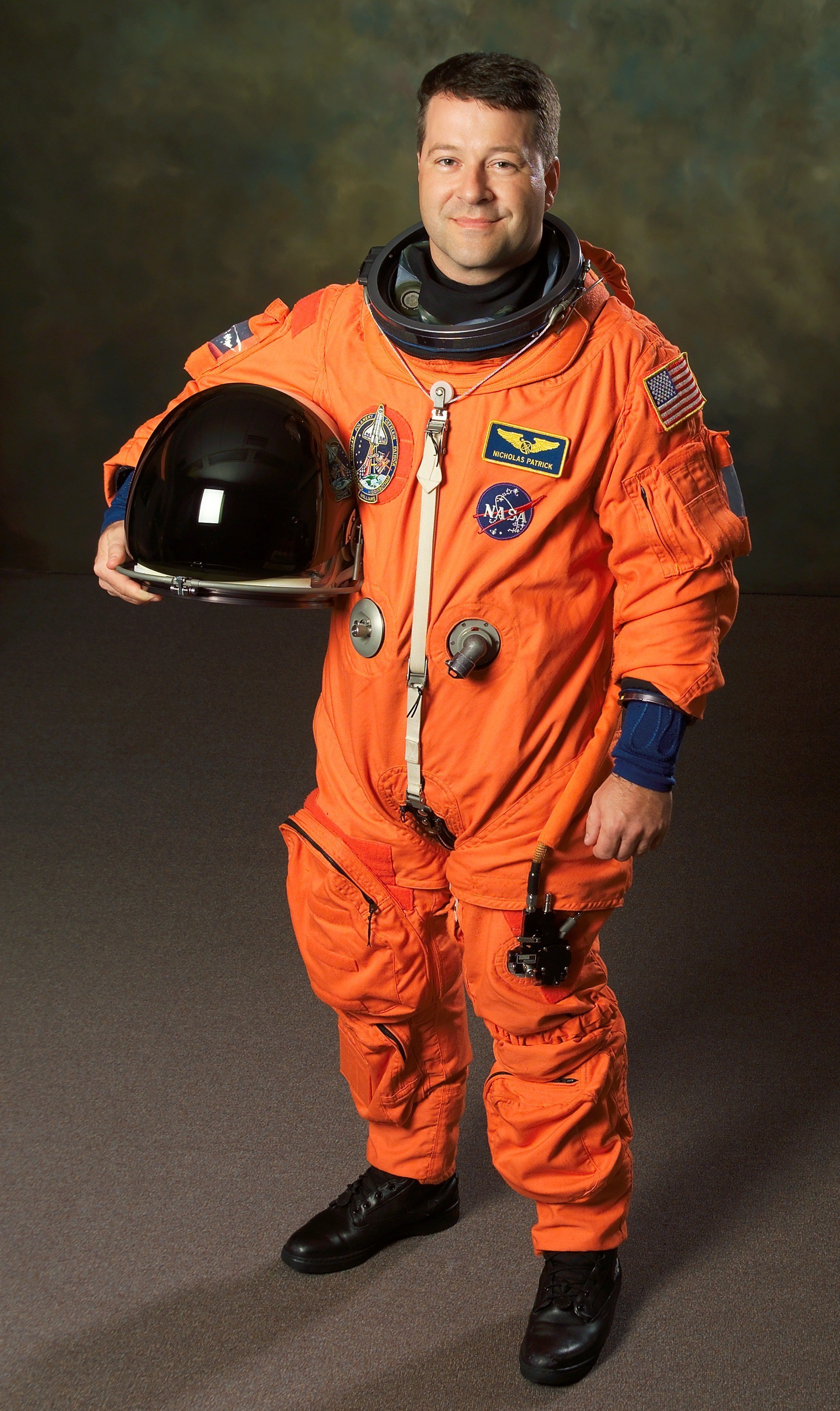 Astronaut Nicholas J. M. Patrick, mission specialist